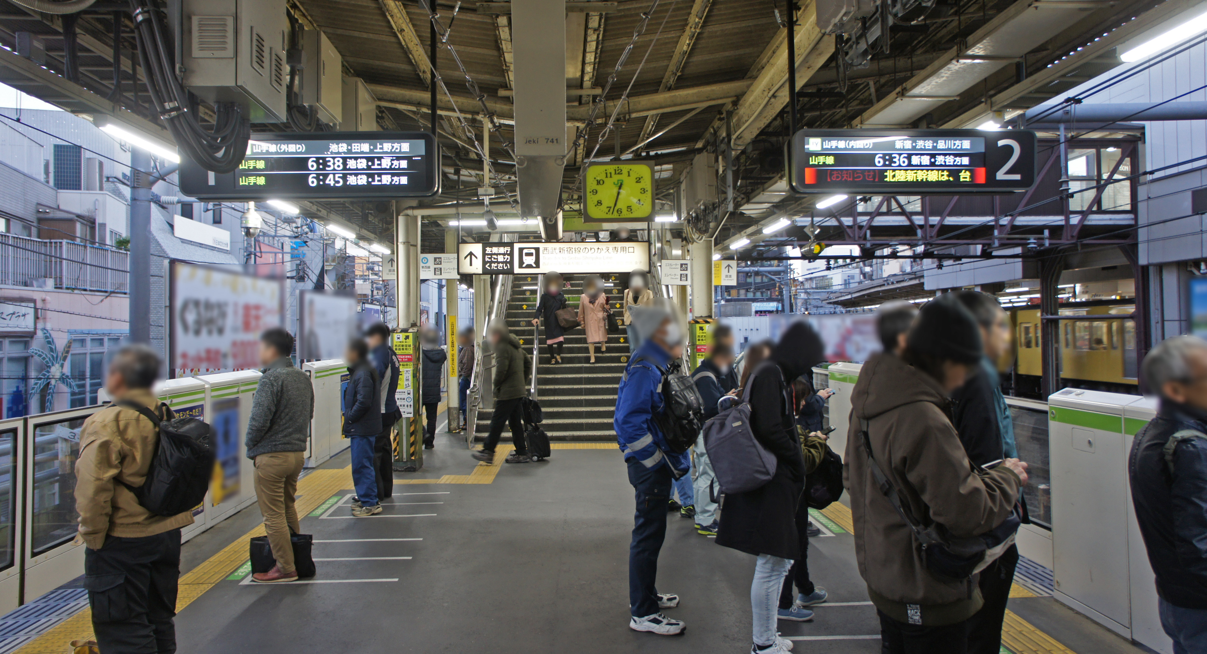 Platform of JR Yamanote-Line Takadanobaba Station